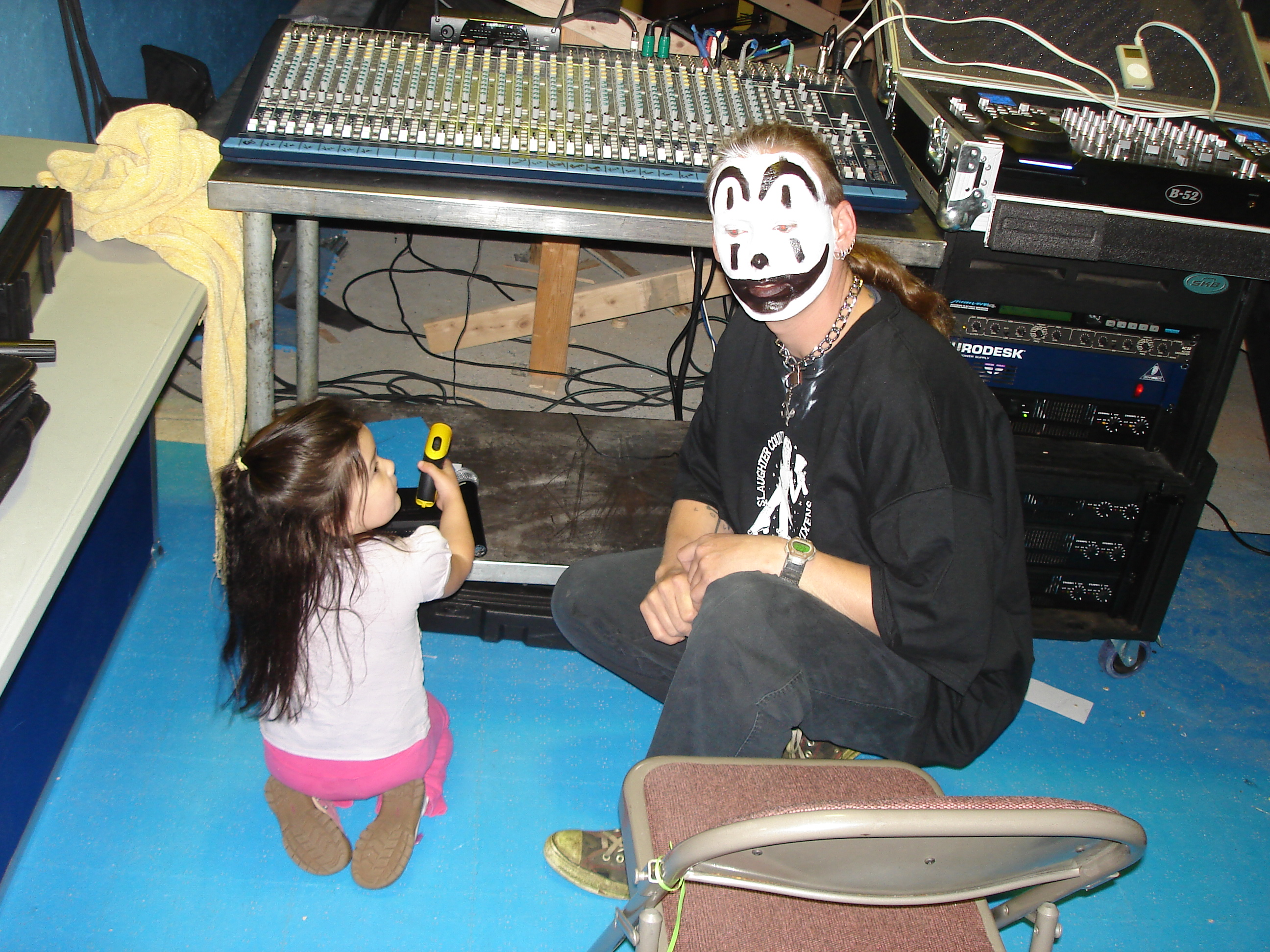 See "Source".